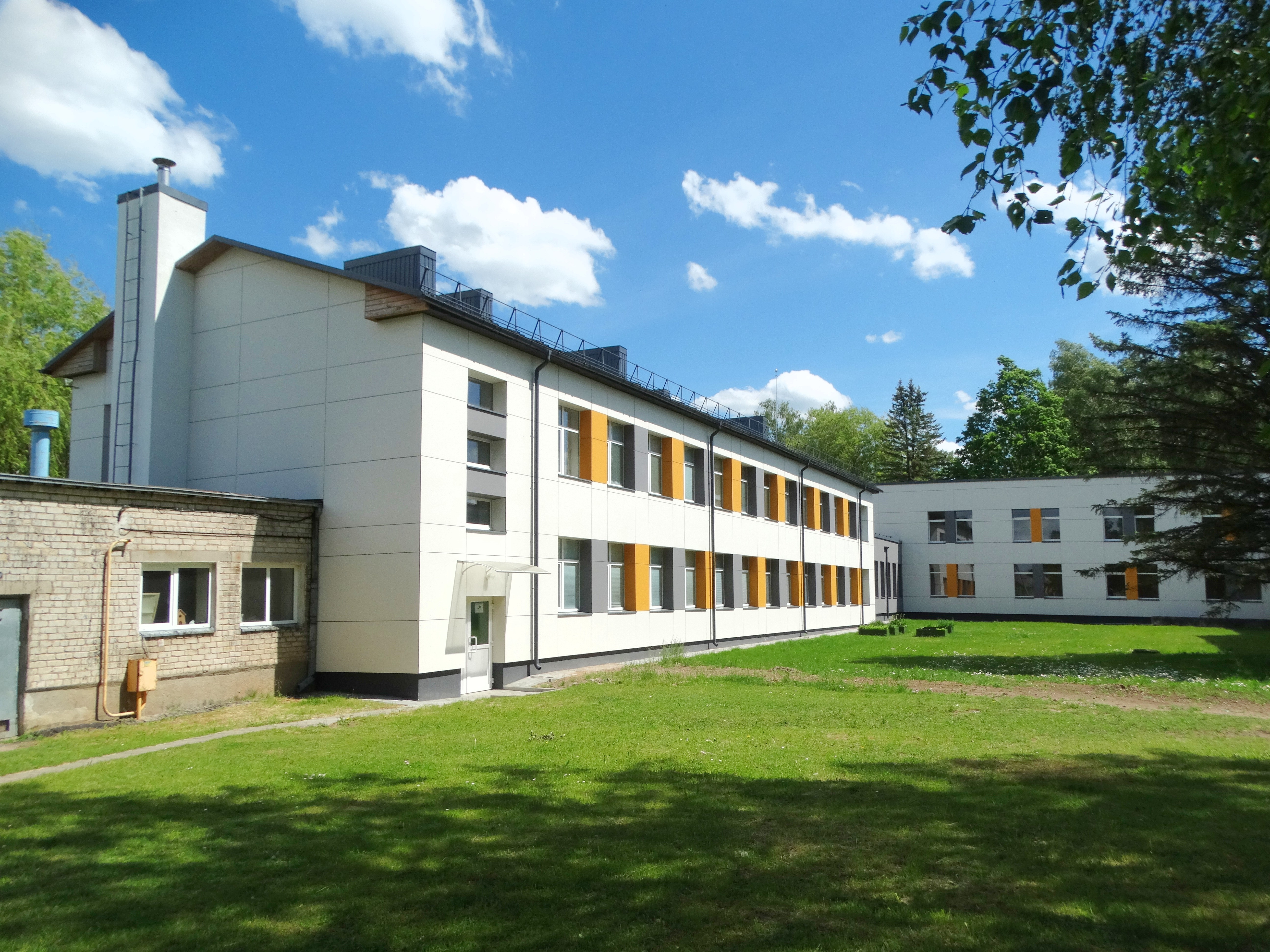 Progymnasium, Šveicarija, Jonava District, Lithuania